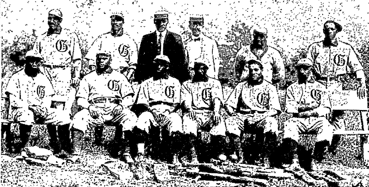 From the Philadelphia Inquirer, Philadelphia, Pennsylvania, Thursday Morning, August 11, 1904, Page 10, Column 2 to 5.